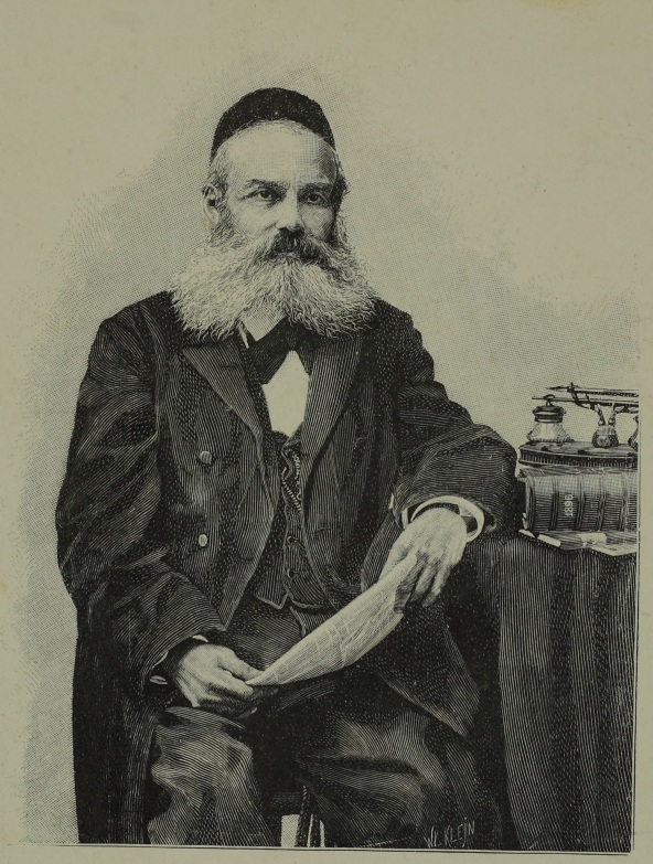 Nimanovitch Naftali